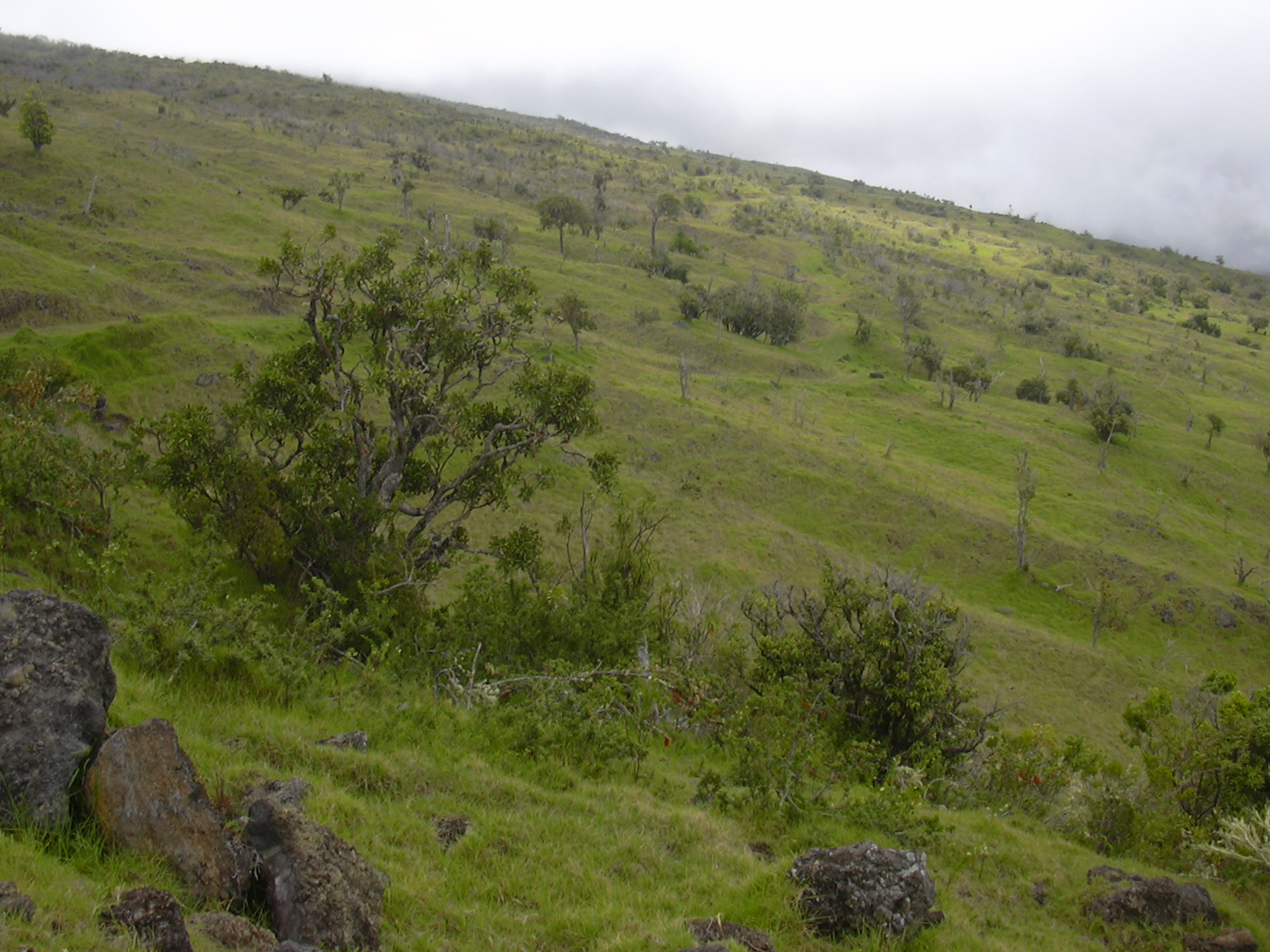 Tetraplasandra oahuensis (habit). Location: Maui, Auwahi